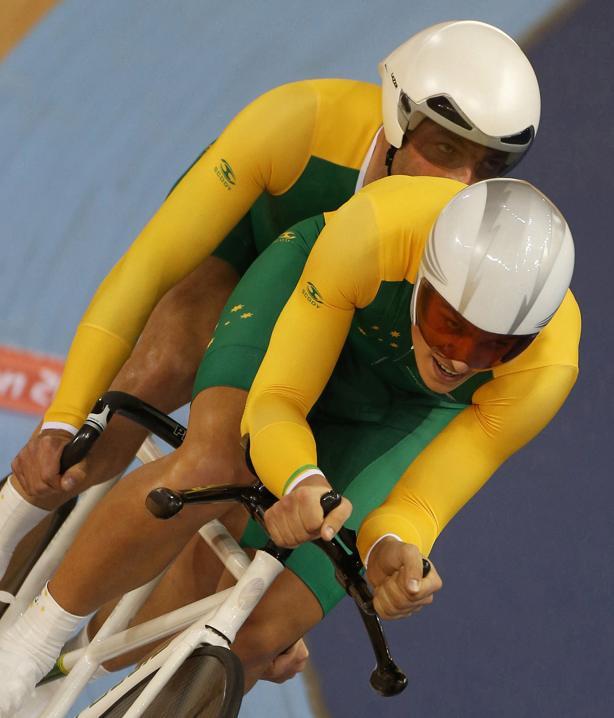 Photograph of Australian Paralympic team members Kieran Modra & Scott McPhee at the 2012 Summer Paralympic Games in London